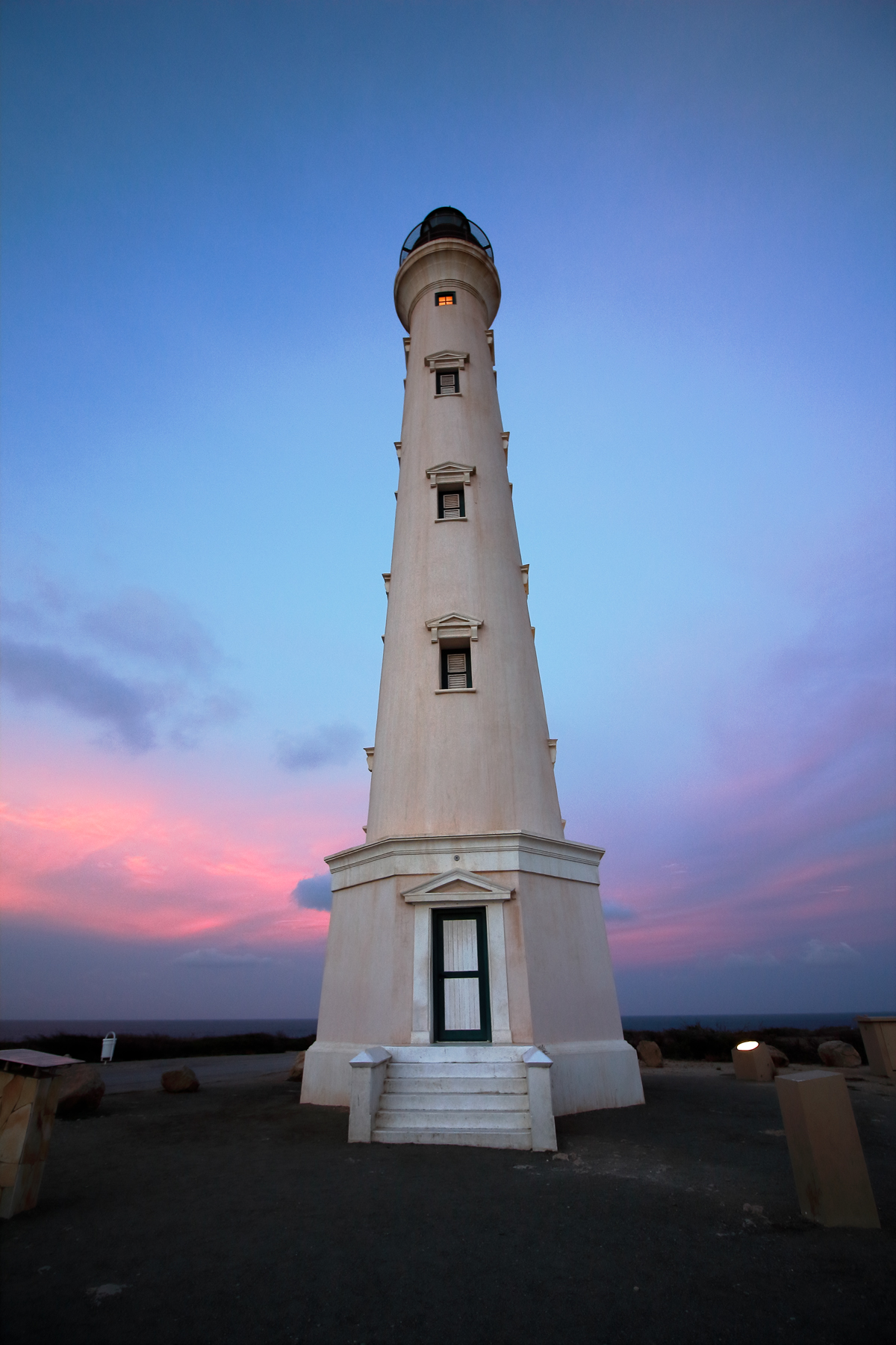 The lighthouse was build in 1916 Restoration in May 2016 which coincided with the 100th anniversary of the completion of the lighthouse.